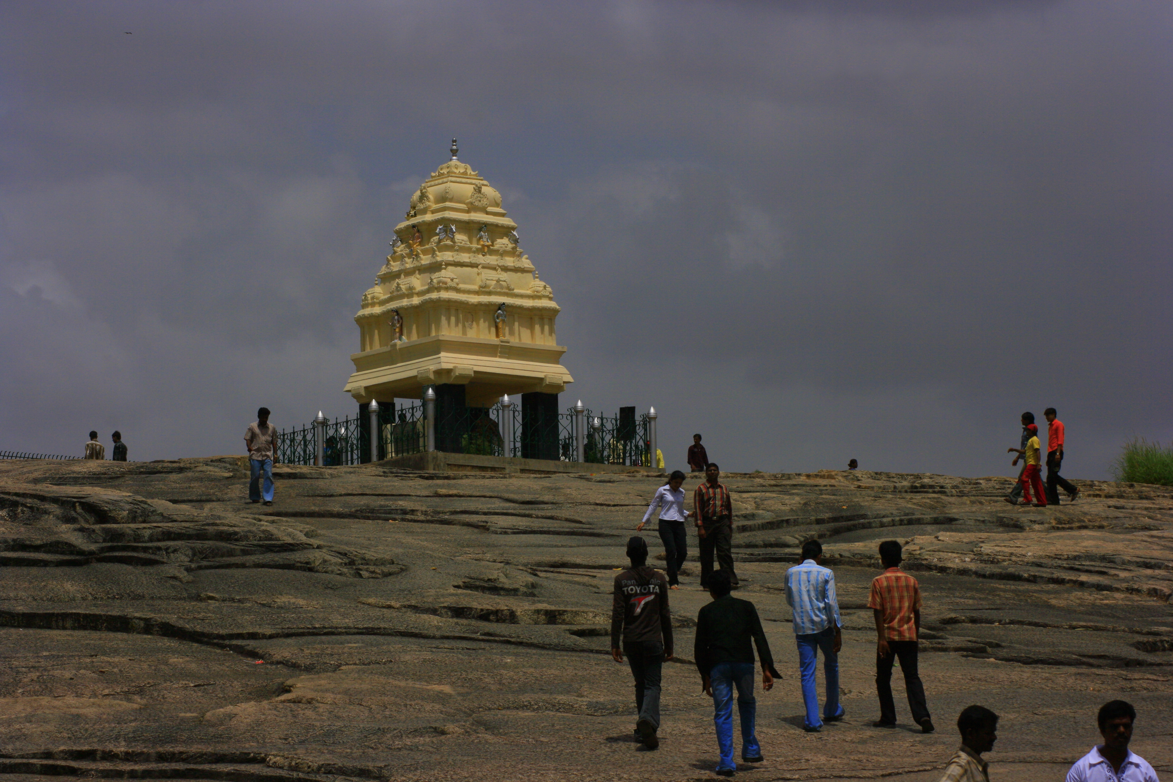 Shot of the famous Kempegowda tower at Lalbagh , bangalore Another view